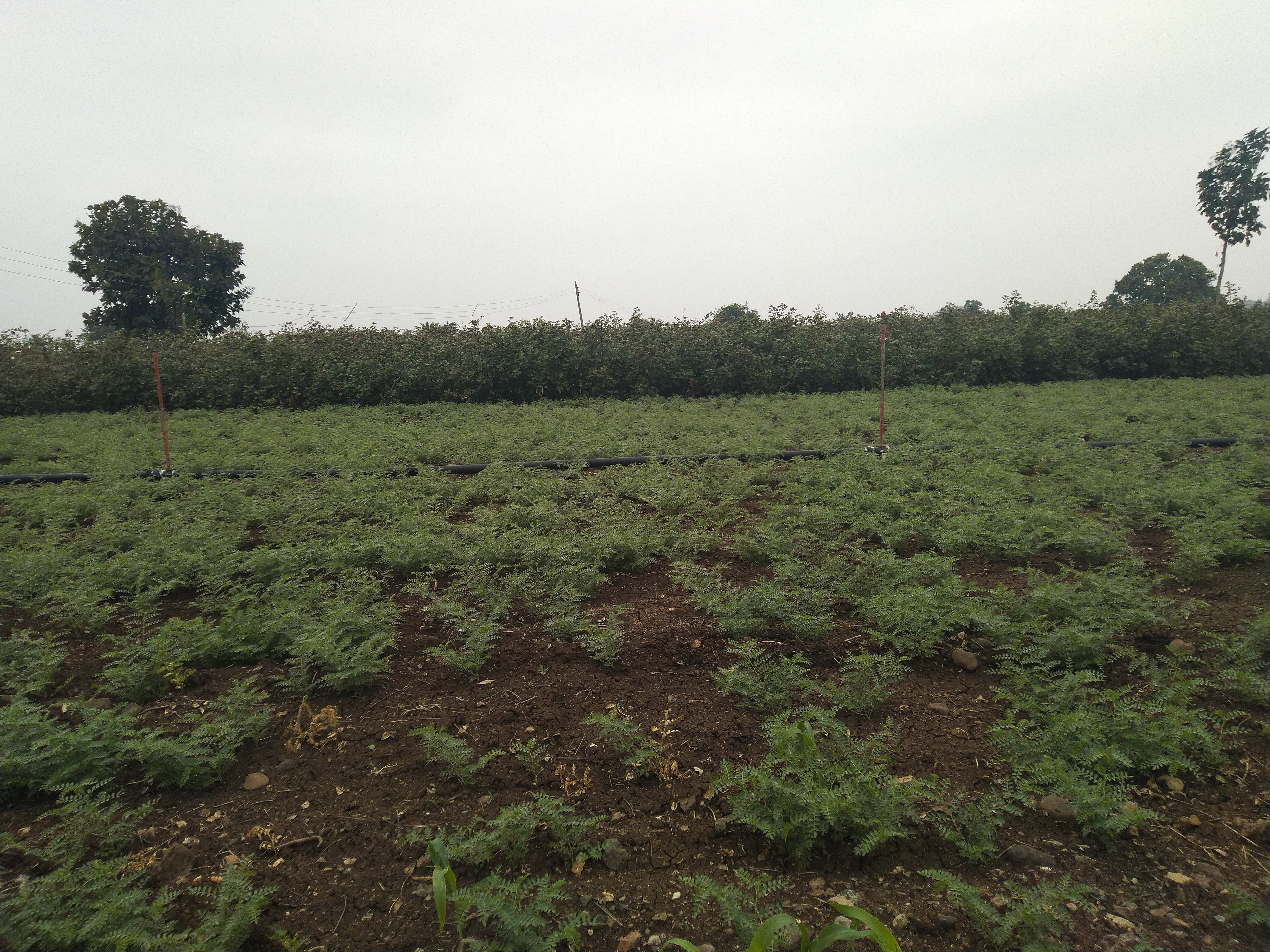 Cicers farm in Jamthi Kh. Hingoli District, Maharashtra on Deccan Plateau